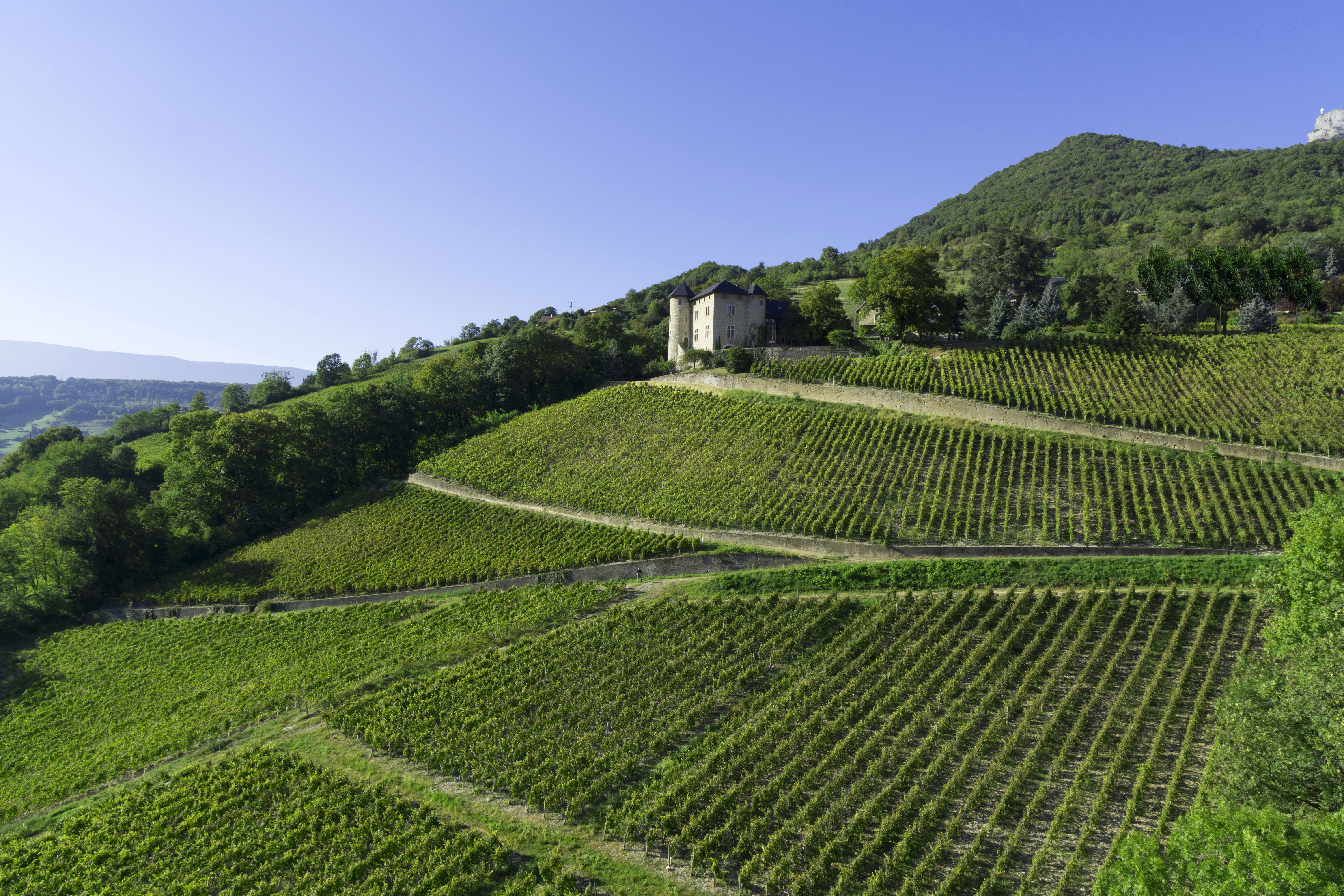 The vineyard of the Chateau surrounded by the French Alps. The topography of the terrains (hills) and sun exposure give the Altesse grape variety its unique taste.